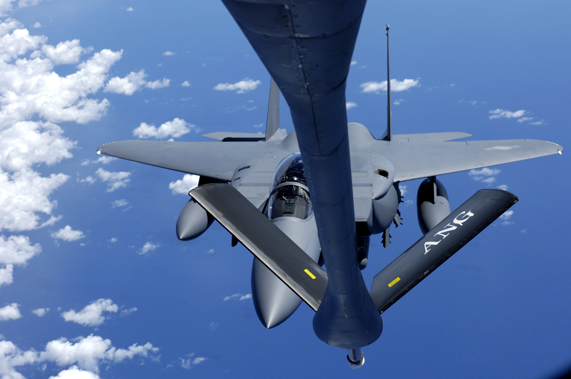 OVER THE PACIFIC -- A South Korean F-15K Eagle comes in for fuel from a KC-135 Stratotanker Oct. 4. The next generation F-15s are on their way to South Korea to make their debut at the Seoul Air Show. The South Korea Air Force purchased 40 fighters from Boeing for $4.2 billon. The Stratotanker is from the Hawaii Air National Guard's 203rd Air Refueling Squadron.